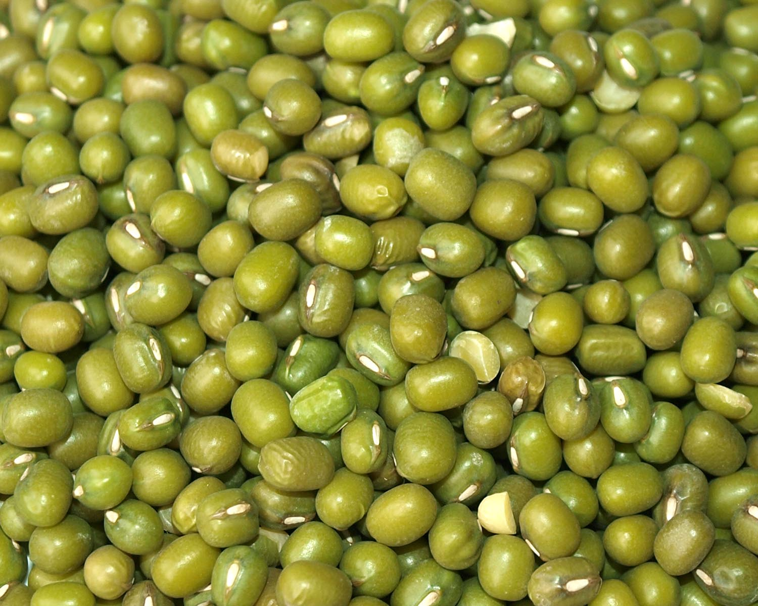 Mung beans seeds, raw